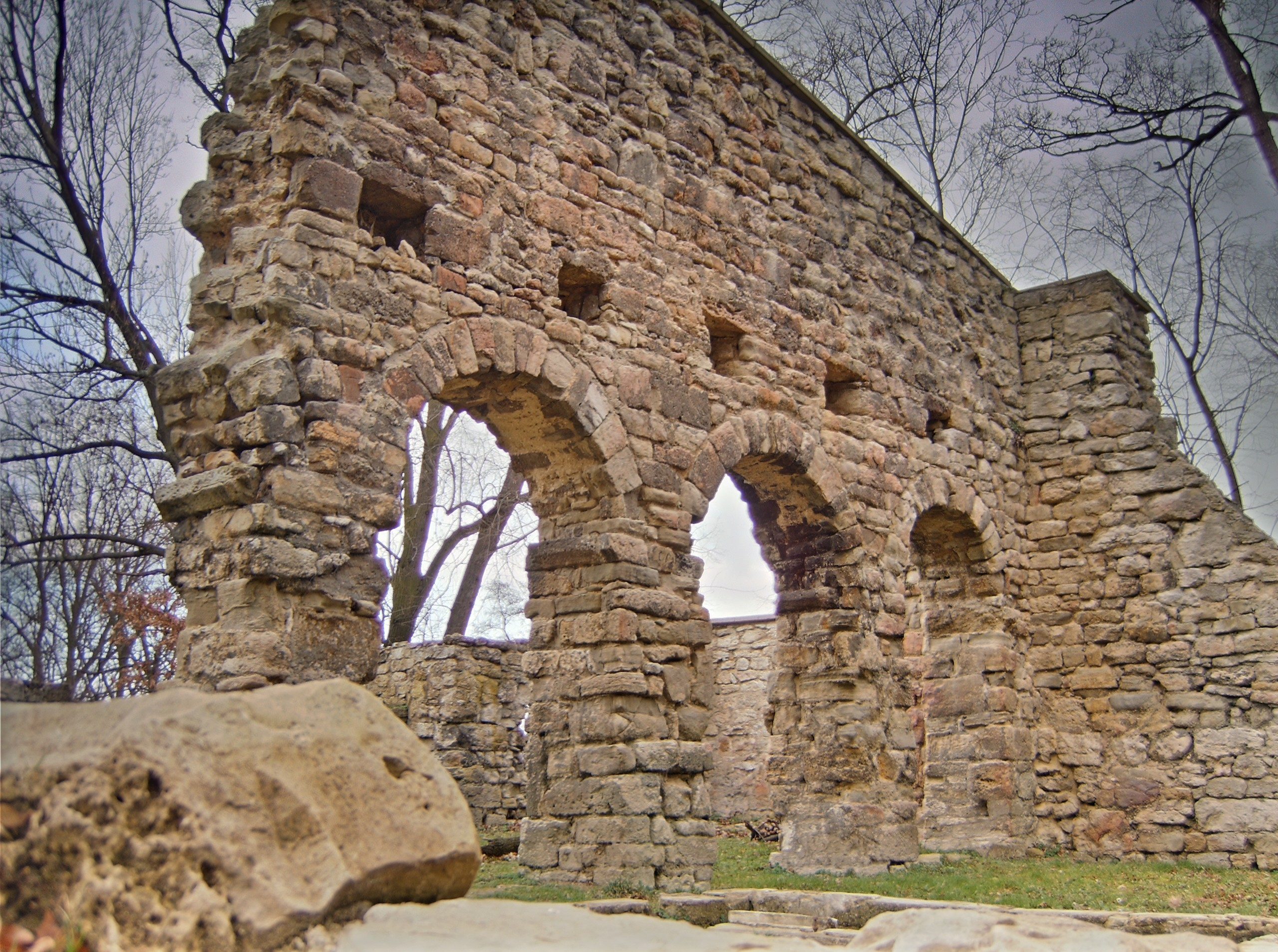 Cyriakschurch in Camburg, Dornburg-Camburg, Germany.